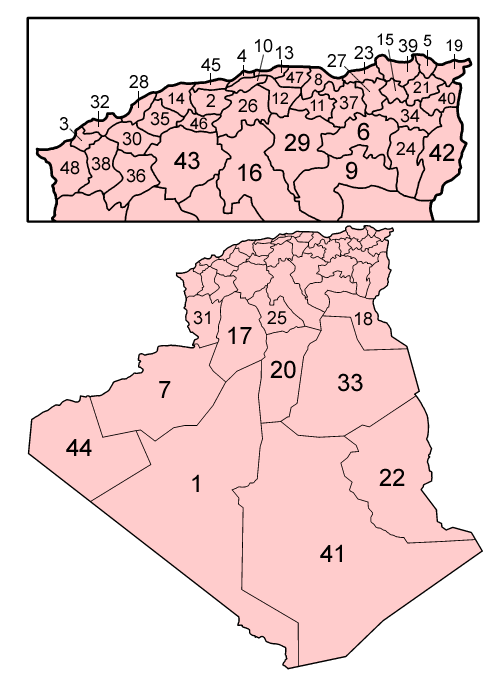 Map of the provinces of Algeria, numbered in English alphabetical order. Adrar Ain Defla Ain Temouchent Alger Annaba Batna Bechar Bejaia Biskra Blida Bordj Bou Arreridj Bouira Boumerdes Chlef Constantine Djelfa El Bayadh El Oued El Tarf Ghardaia Guelma Illizi Jijel Khenchela Laghouat Mascara Medea Mila Mostaganem M'Sila Naama Oran Ouargla Oum el Bouaghi Relizane Saida Setif Sidi Bel Abbes Skikda Souk Ahras Tamanghasset Tebessa Tiaret Tindouf Tipaza Tissemsilt Tizi Ouzou Tlemcen